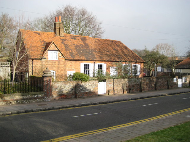 Friends' Meeting House, Whielden Steet, Amersham, Buckinghamshire, seen from the southeast. For a view taken 7 minutes later see 722144.